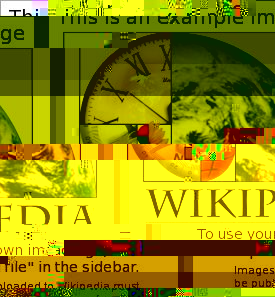 Databent version of File:Example.jpg (File:Ime slike.jpg on Wikimedia Commons)